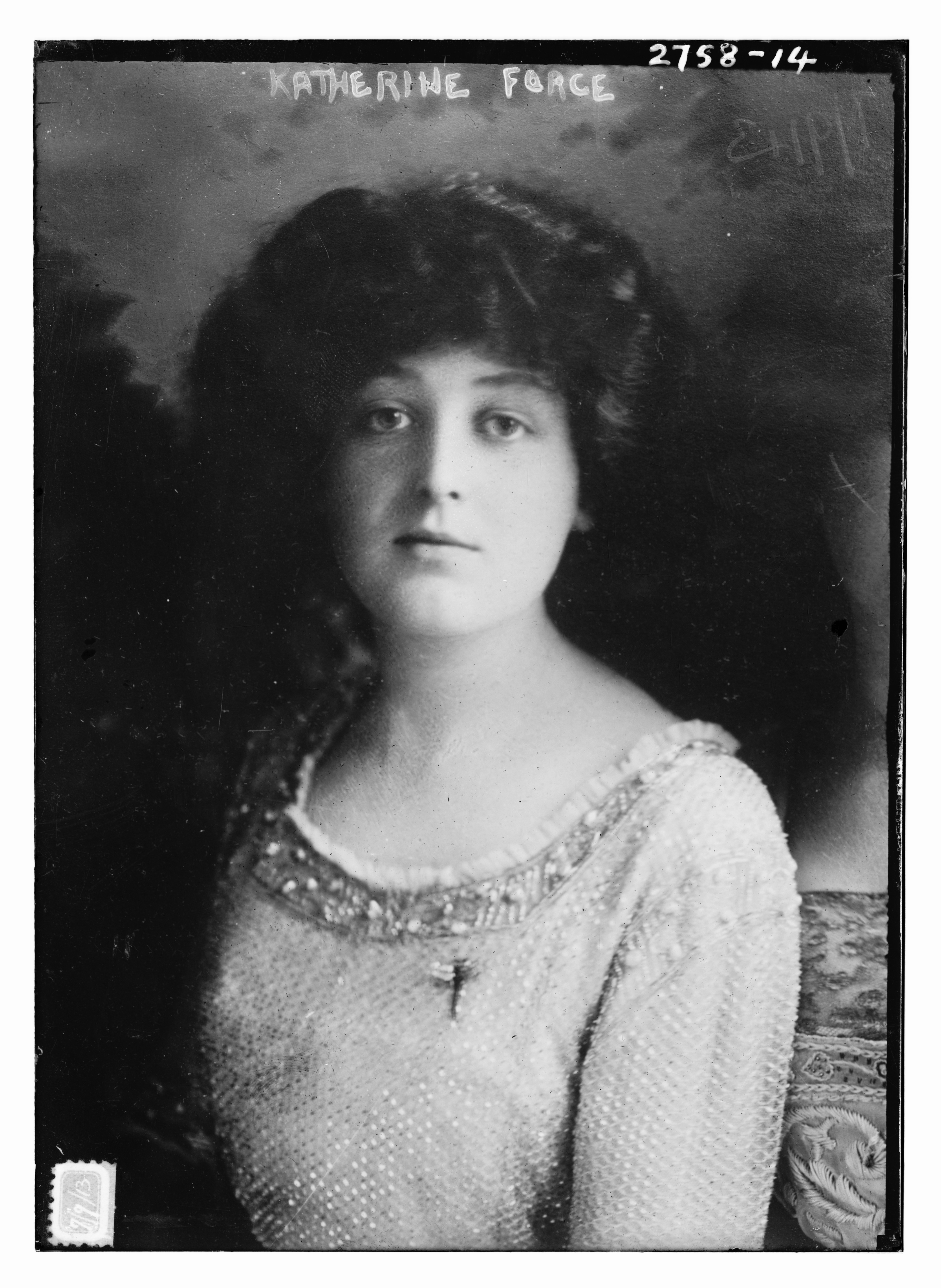 Bain News Service,, publisher. Katherine Force [no date recorded on caption card] 1 negative : glass ; 5 x 7 in. or smaller. Notes: Title from unverified data provided by the Bain News Service on the negatives or caption cards. Forms part of: George Grantham Bain Collection (Library of Congress). Format: Glass negatives. Repository: Library of Congress, Prints and Photographs Division, Washington, D.C. 20540 USA, General information about the Bain Collection is available at Persistent URL: Call Number: LC-B2- 2758-14